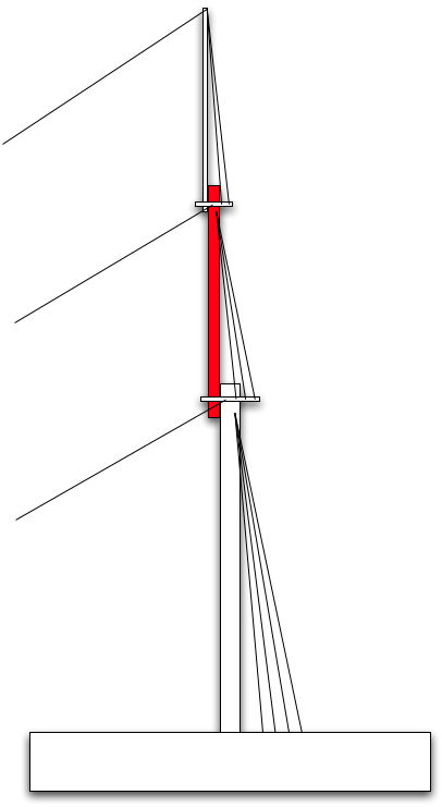 A simple diagram of a traditional ship's mast, with the topmast highlighted.